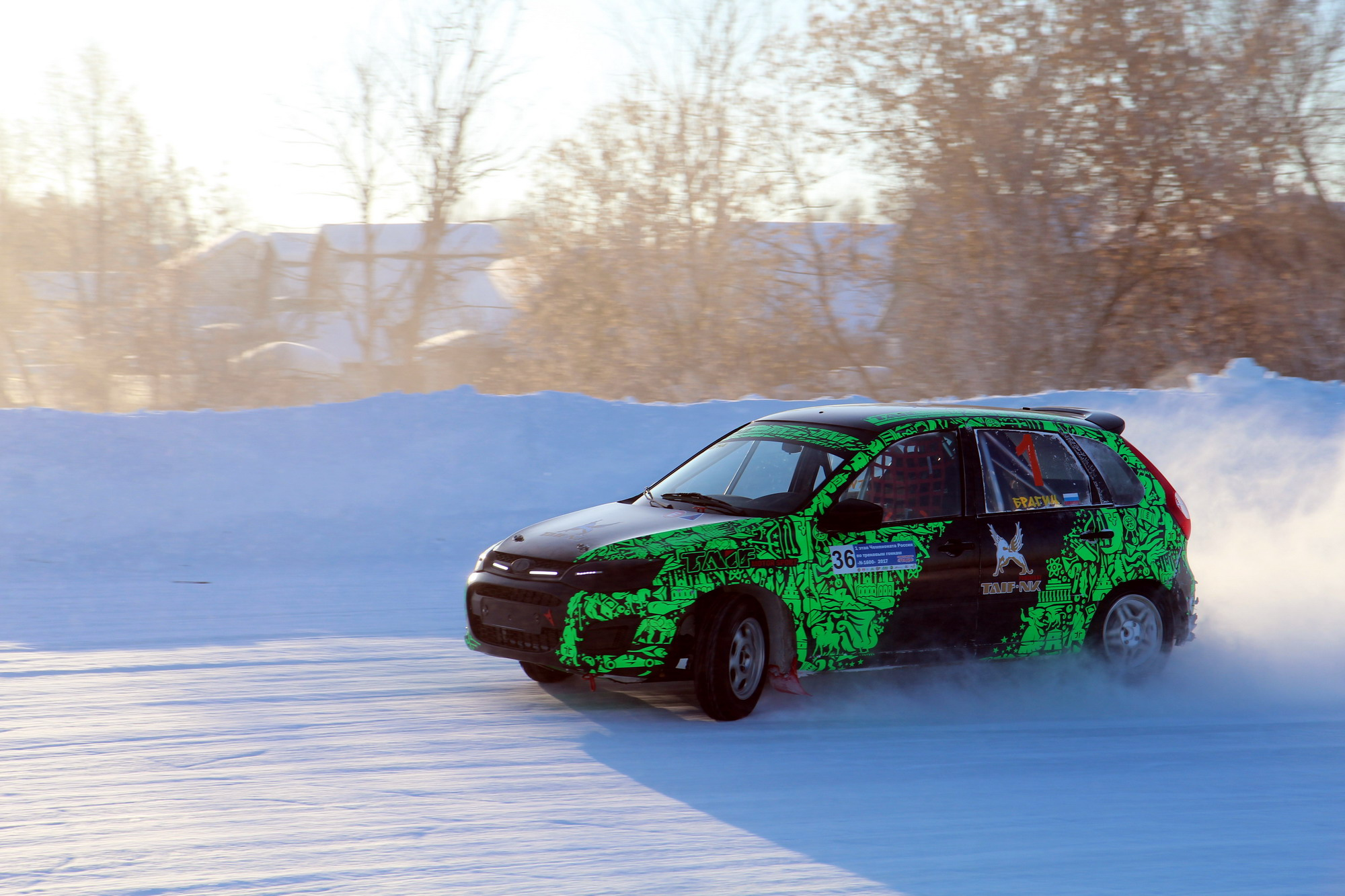 Dmitry Bragin, Russian Ice Racing Championship-2017, LADA Kalina NFR